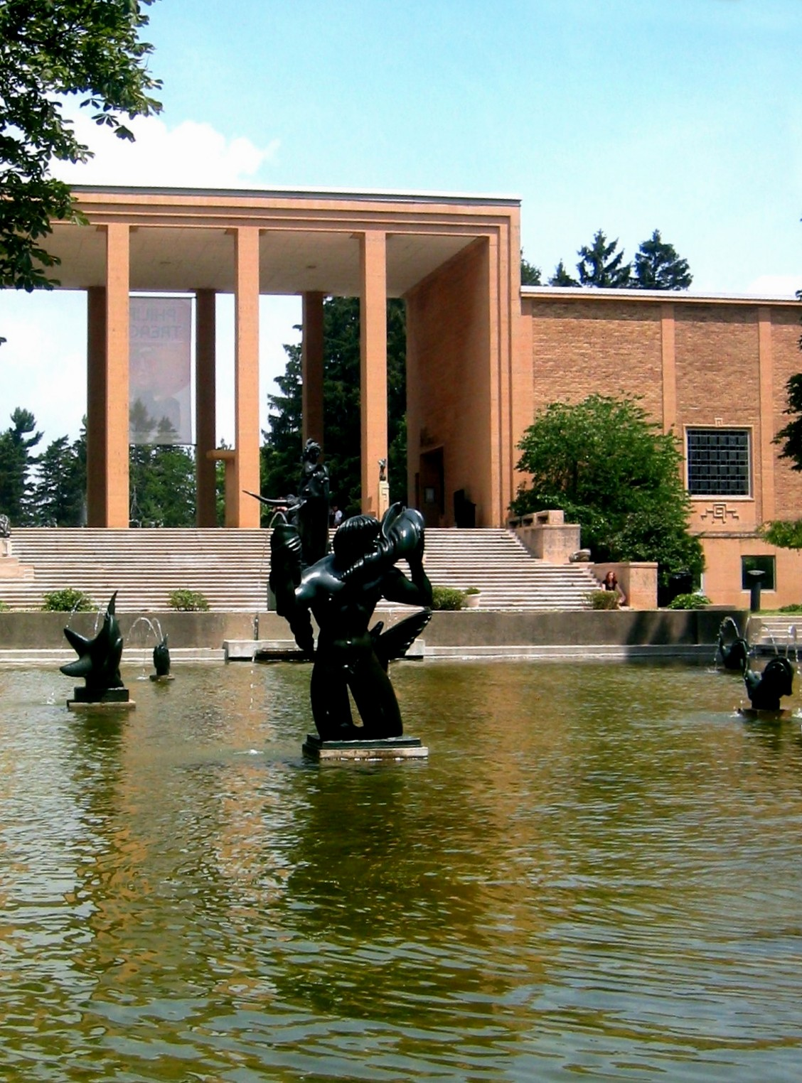 The art museum and library at the Cranbrook Academy of Art. Fountain pool with sculptures by Carl Milles. The building was designed by world-renowned architect Eliel Saarinen, as part of his master plan for the Cranbrook Educational Community. This photograph was taken by Shoughto on July 15, en:2006.